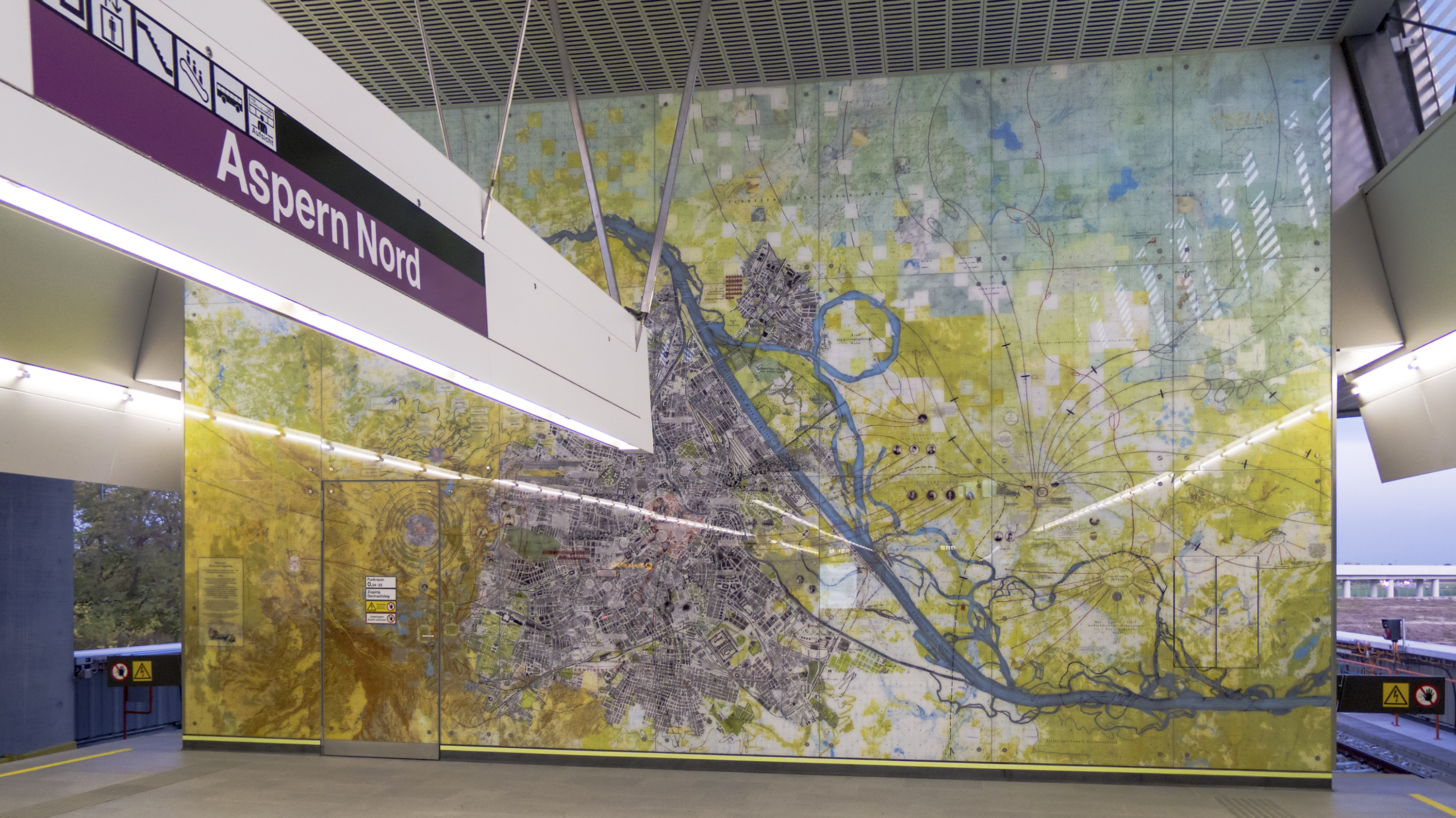 Underground station Aspern Nord of line U2 in Vienna 22